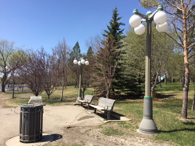 Seating area in Wascana Centre known as Links Between Capitals.